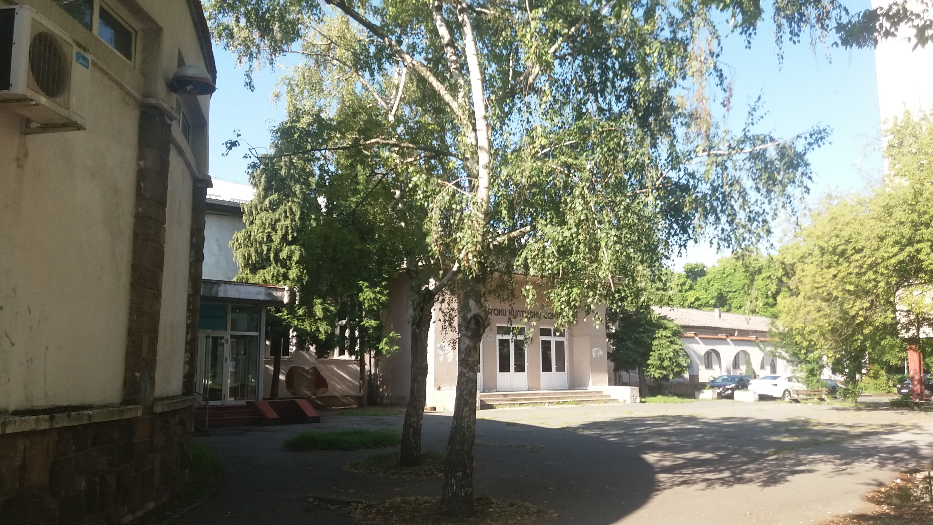 Education Center Building, Block 4, New Belgrade